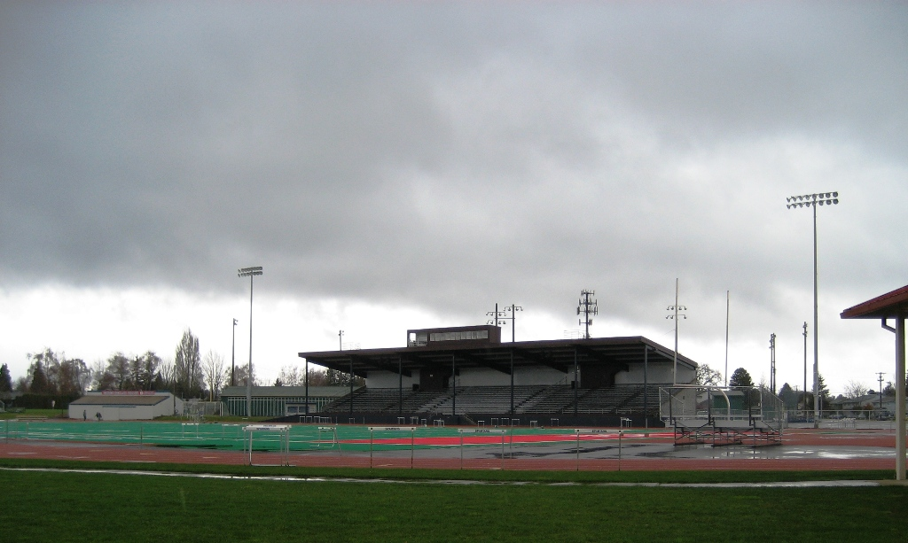 Hare Field in Hillsboro, Oregon